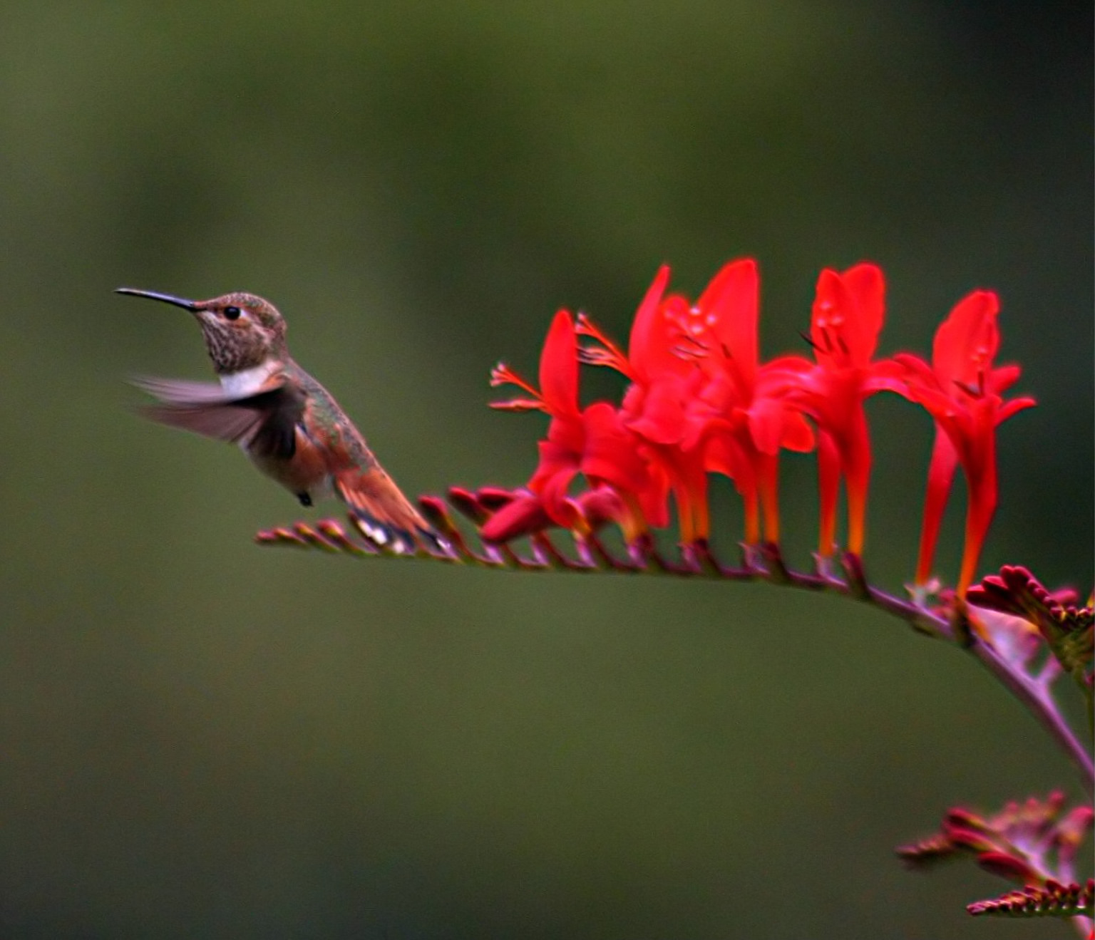 A hummingbird at Crocosmia. The image was taken in San Francisco.